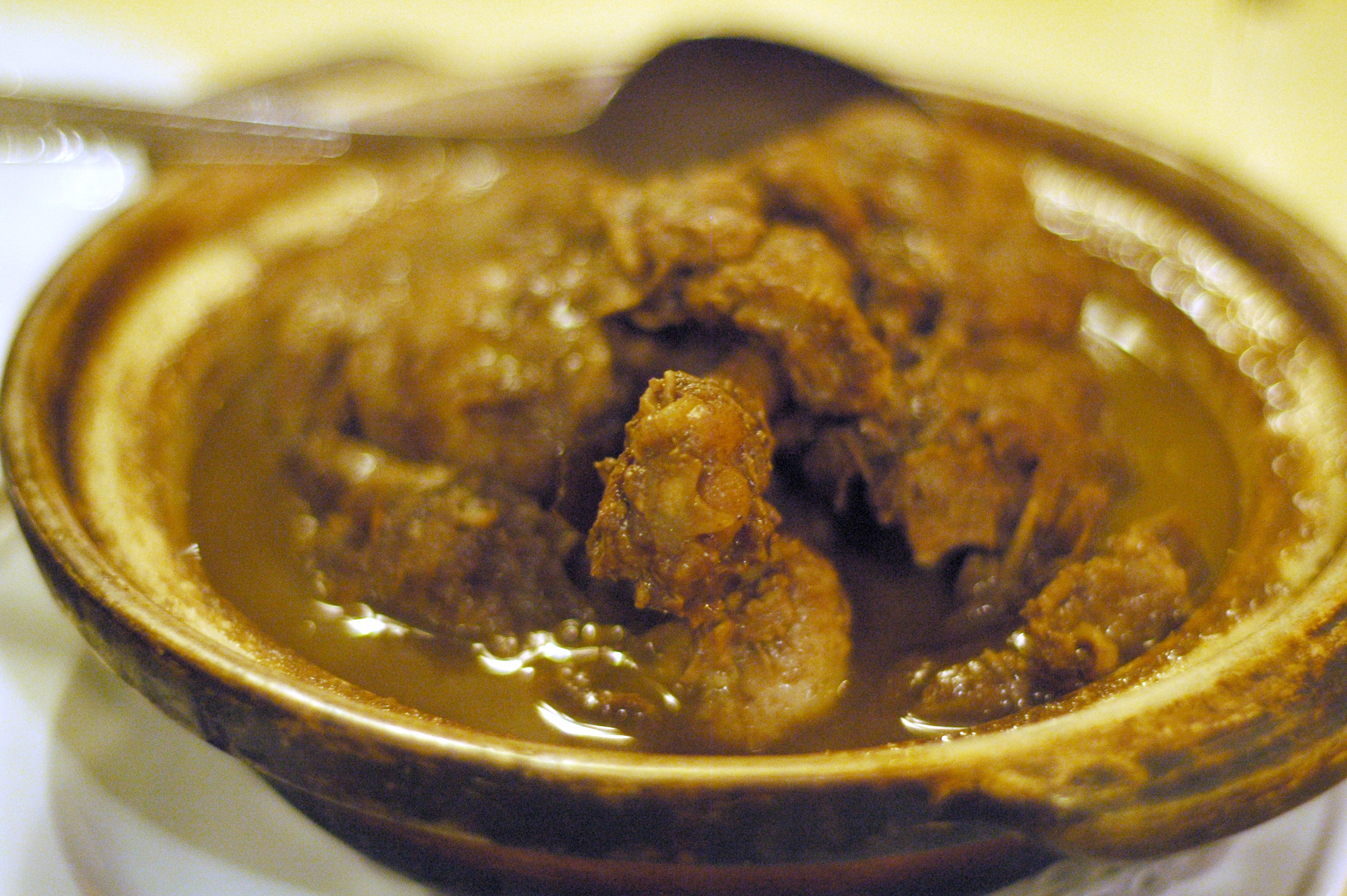 Pato de cabidela (bloody duck) at Porto Exterior, Macau.